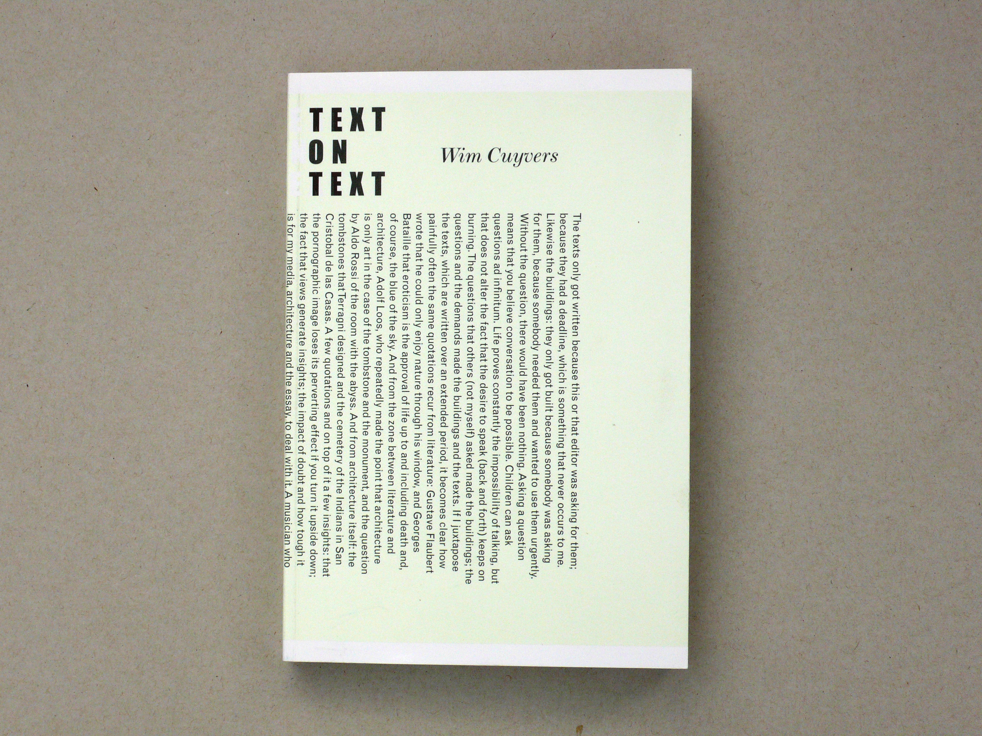 Book cover for "Text on Text" by Wim Cuyvers, designed by Filiep Tacq (2005)